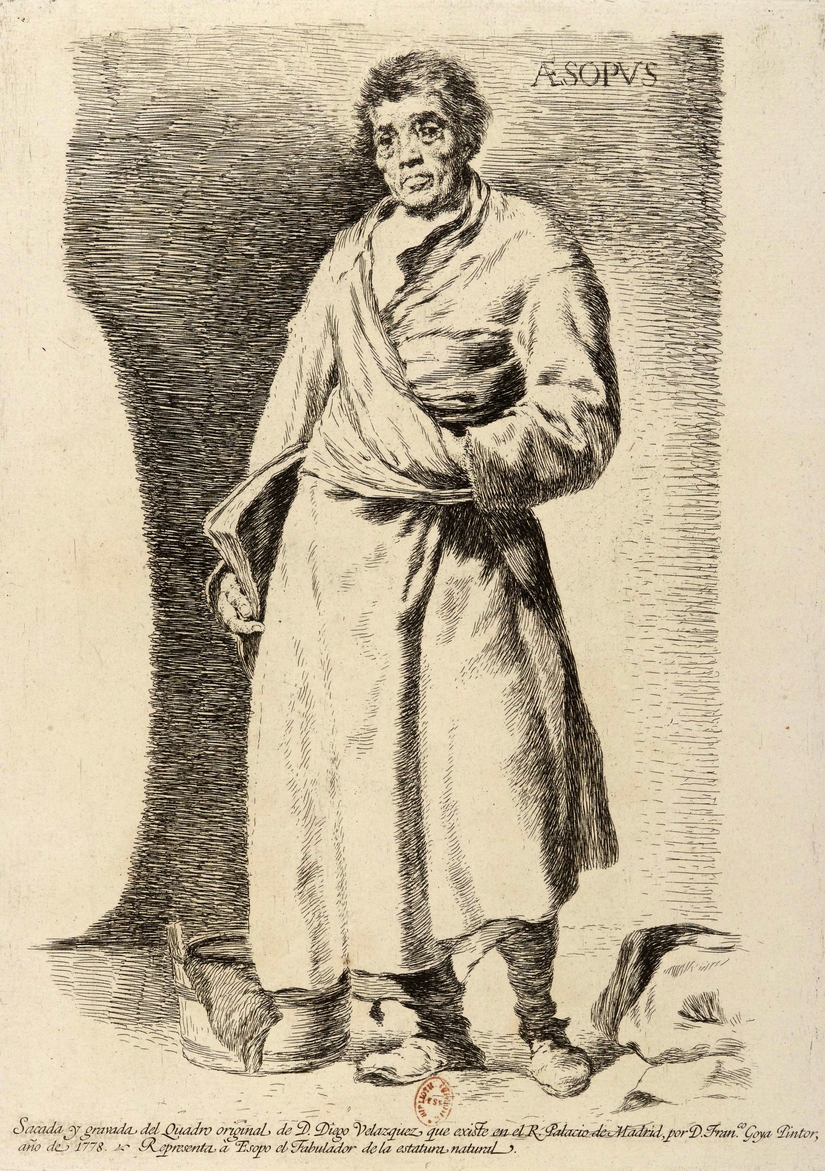 Drawing by the spanish painter Velázquez